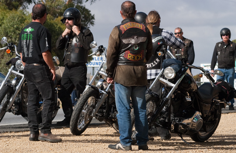 Gawler, South Australia. Gypsy Jokers Poker Run, protesting the Right to Associate that has been taken away by the state government.